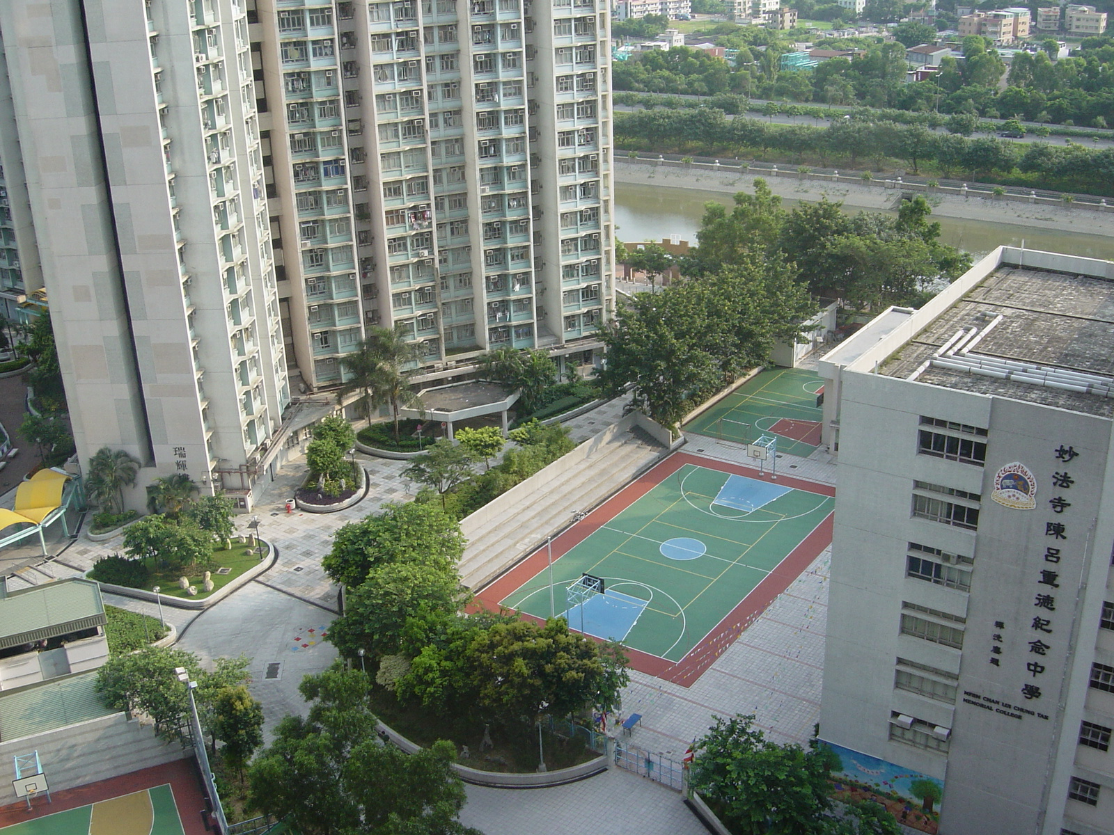 Shui Fai House and MFBM Chan Lui Chung Tak Memorial College Tin Shui Estate, Tin Shui Wai, New Territories, Hong Kong